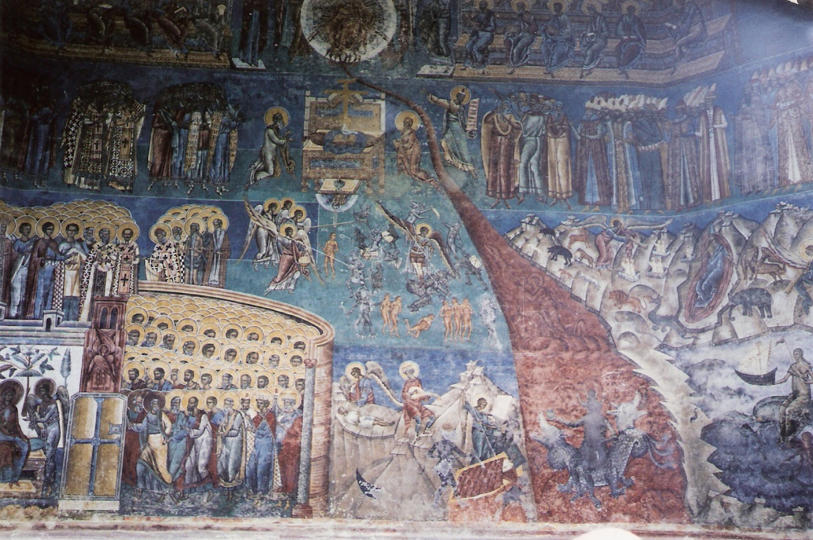 Last judgment, Voroneţ Monastery, Romania